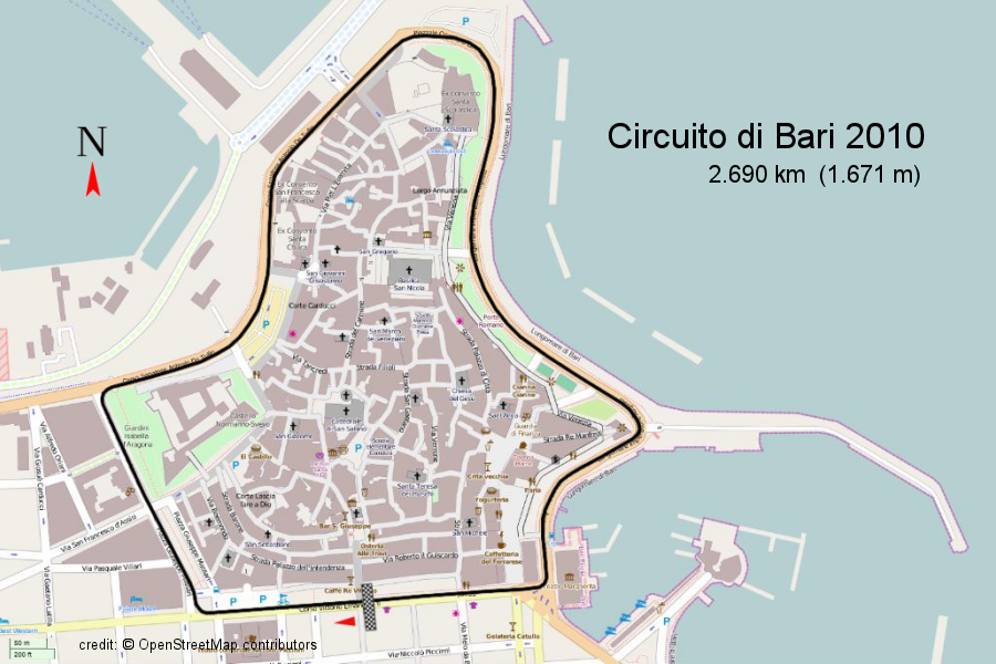 Circuito di Bari 2010